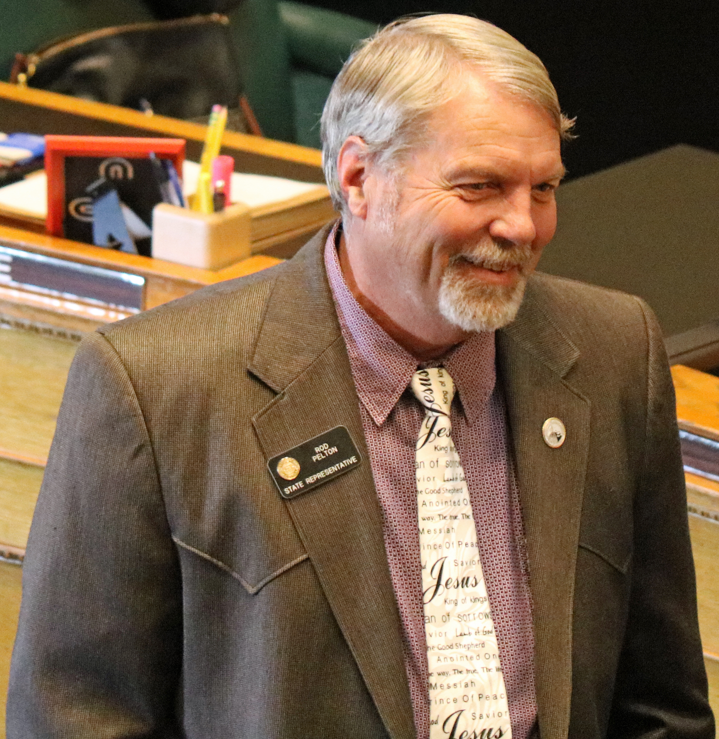 Rod Pelton, a politician from Colorado.